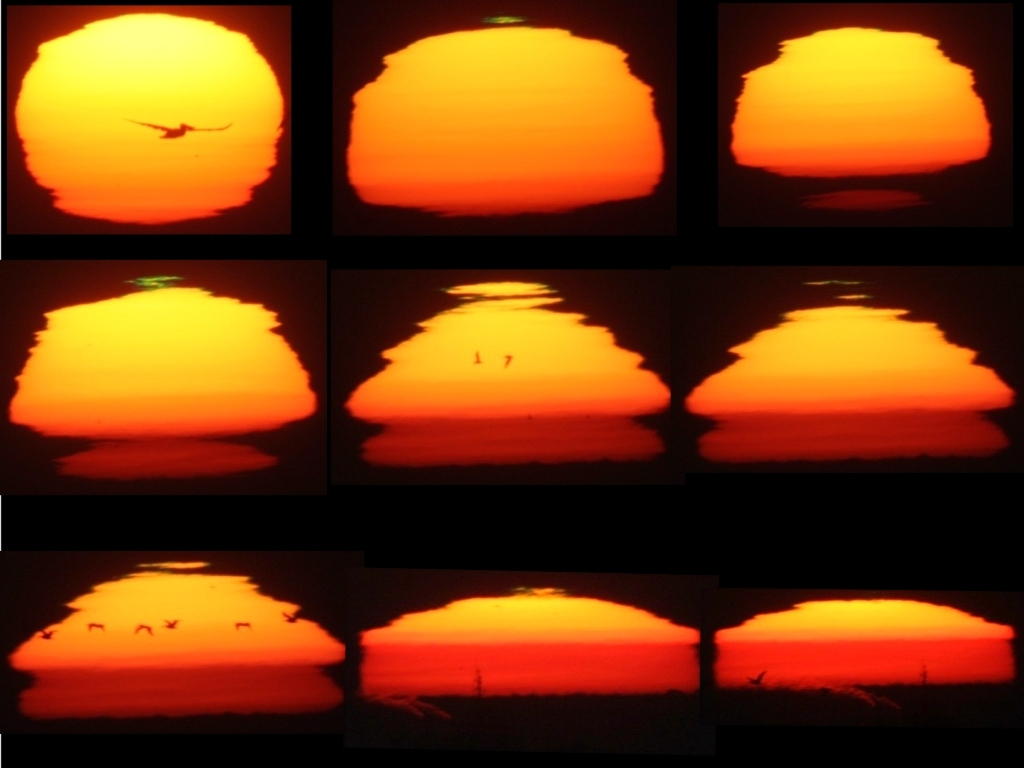 Mock mirage sunset sequence with Green Flash in the second and fourth frame. The images were taken in San Francisco.